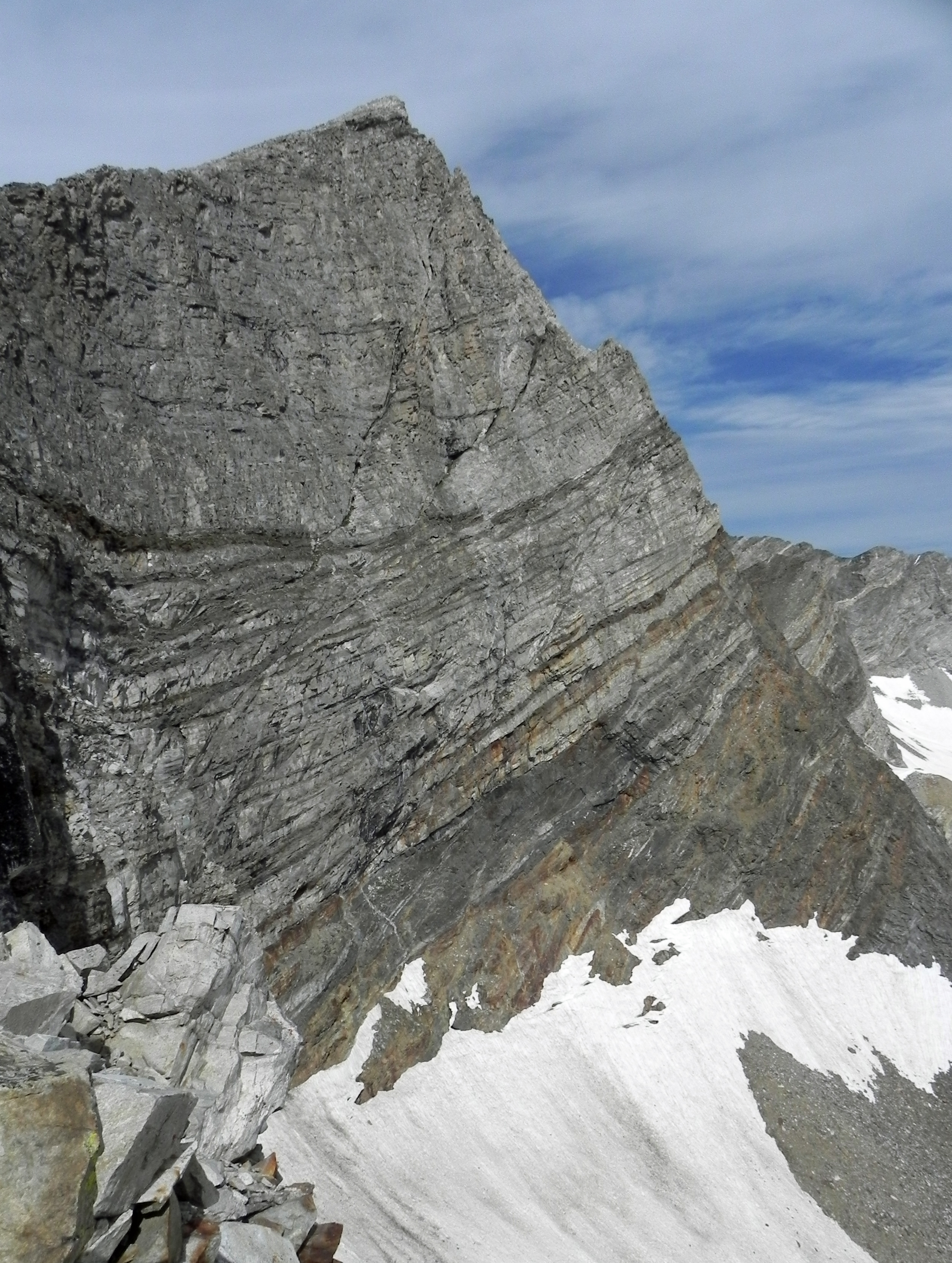 Hyndman Peak Idaho and its eastern face